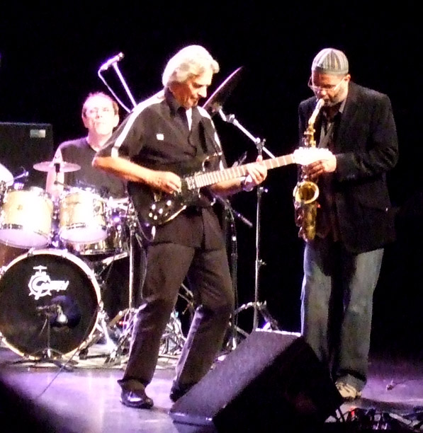 Five Peace Band: John McLaughlin - e-guitar, Kenny Garrett - saxophone, Vinnie Colaiuta - drums; concert at the Stadthalle in Vienna.